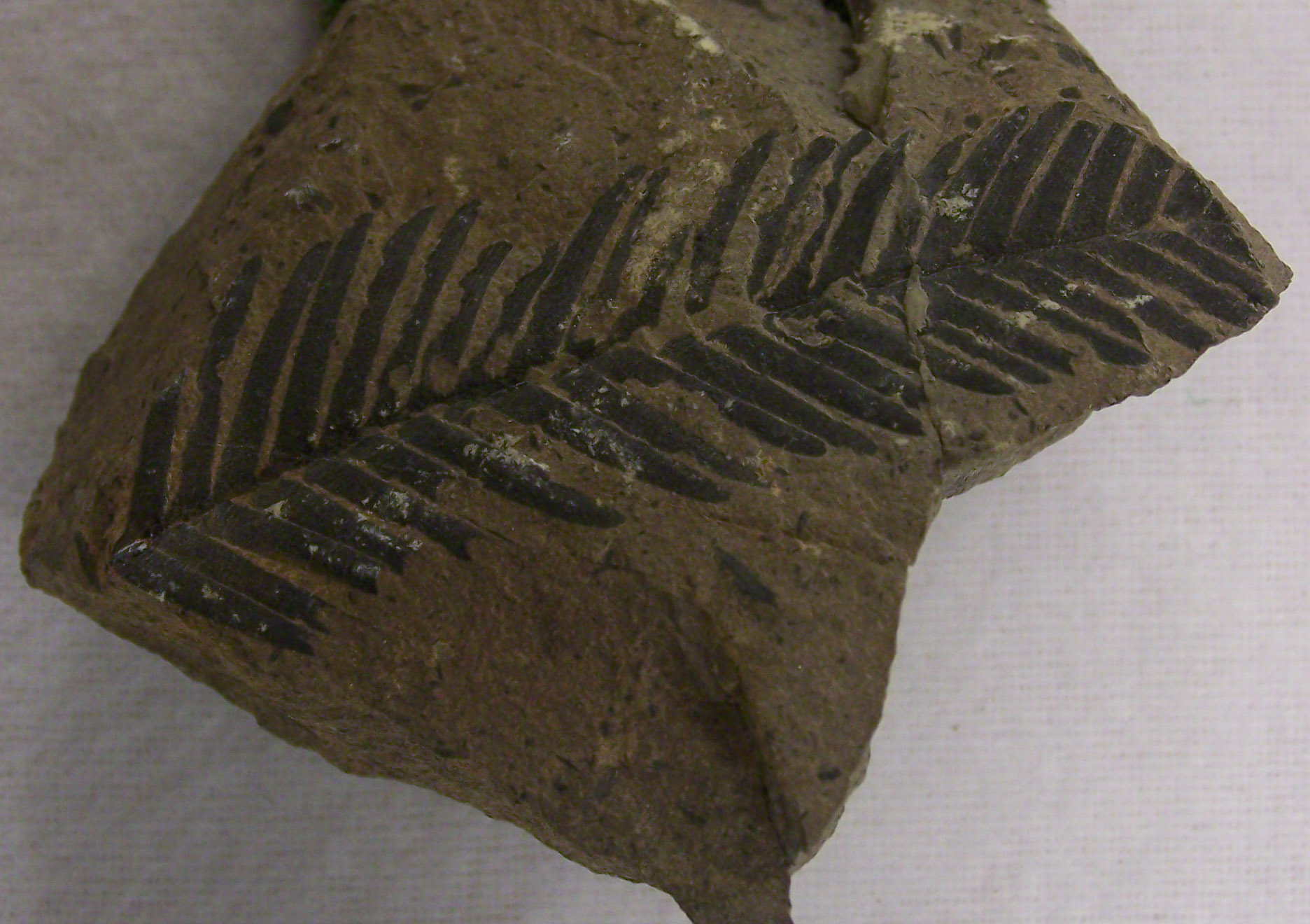 Fossil twig of the plant species Ptilophyllum sp., a cycadeoid, from the Lower Jurassic of Bavaria (Schwarzjura-group). Fossil is about 5 cm long, collection of the Universiteit Utrecht.